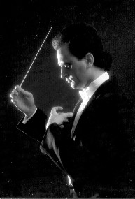 Author: Mario Lamberto Source: website URL: from Mario Lamberto's website GFDL from Mario Lamberto OTRS Ticket#2006122910017958